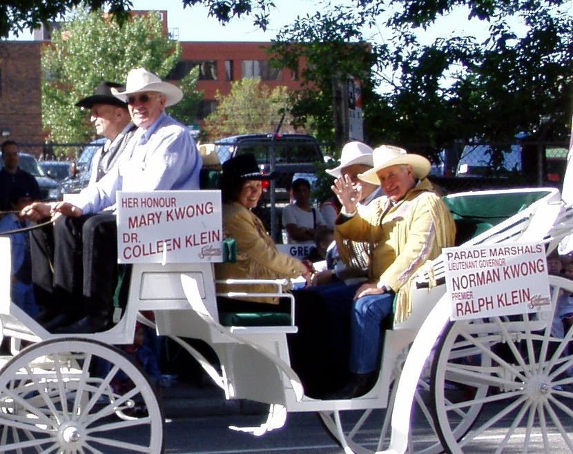 Ralph Klein as Marshal for the 2005 Calgary Stampede parade. July 8, 2005, Calgary, Alberta